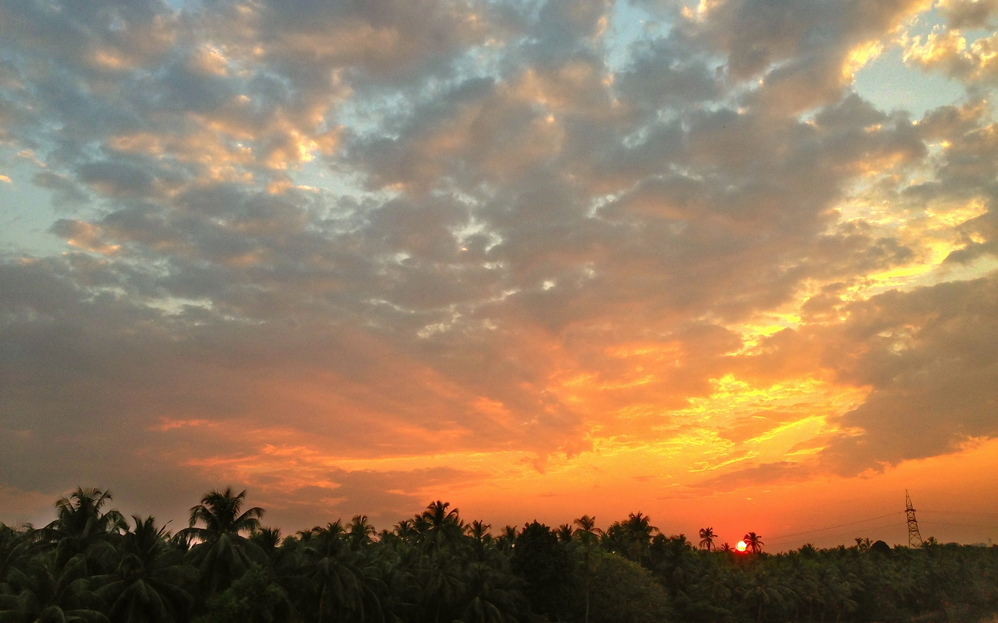 Sunset as seen from a small town in India